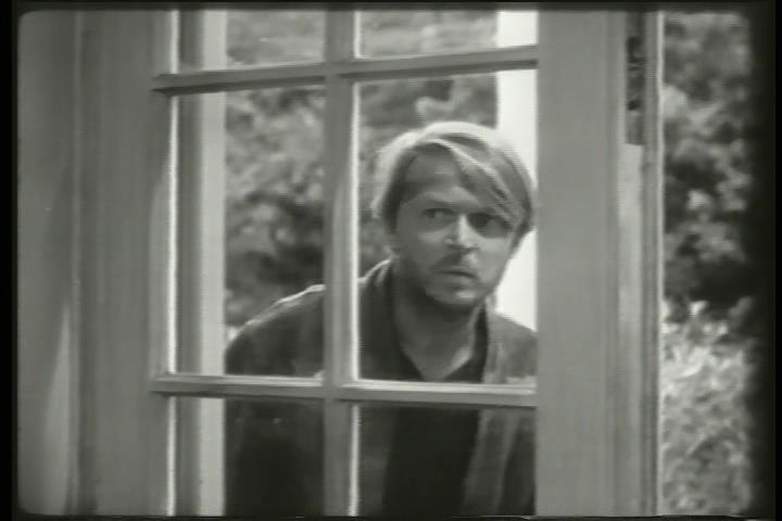 A scene from The Screaming Skull, a 1958 film directed by Alex Nicol.